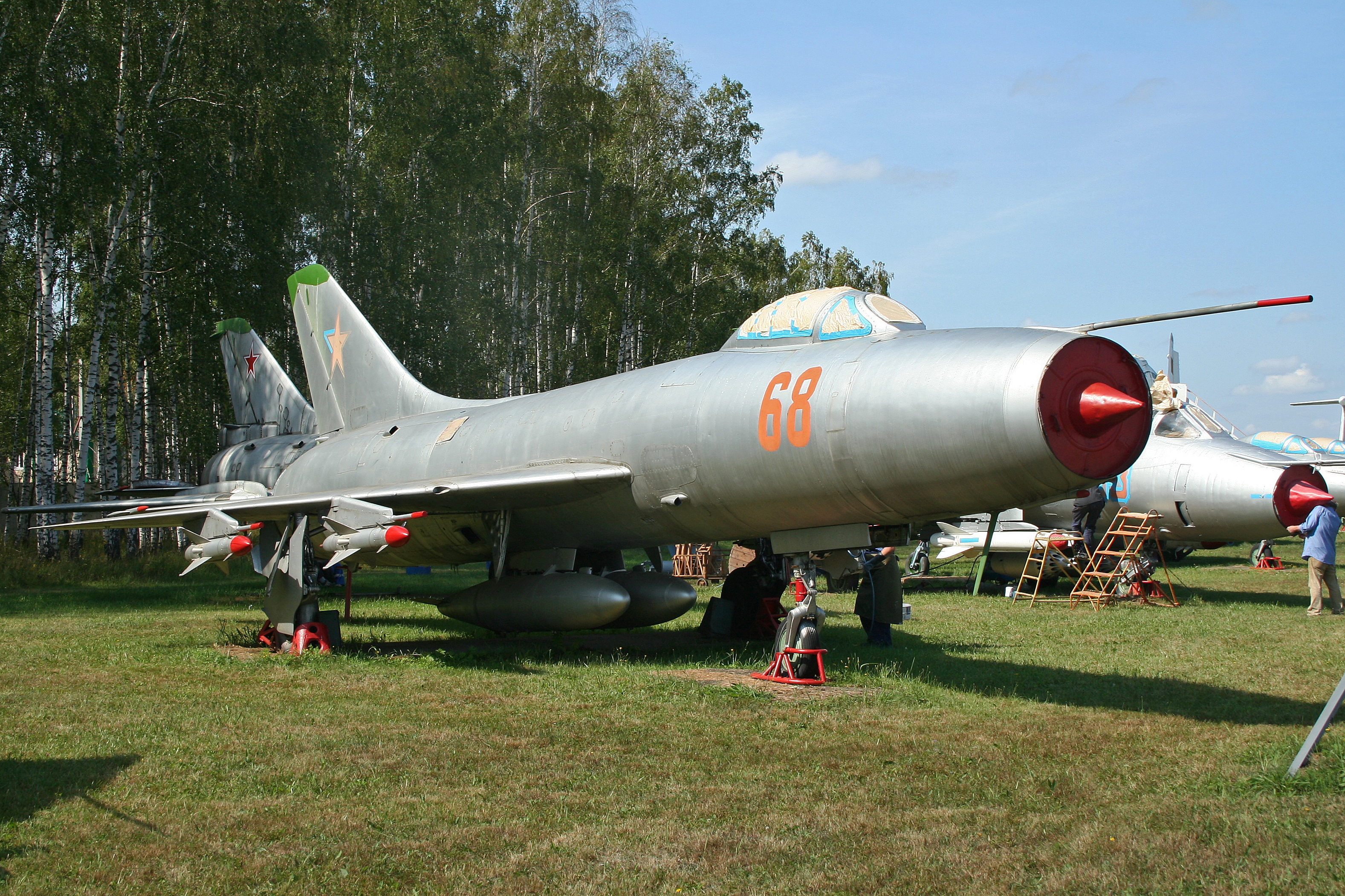 Some 1,150 Su-9 fighters were built, and it became a major front line interceptor. An Su-9 was allegedly involved in the May 1960 shoot-down of Gary Powers and his U-2. The Su-9 was on an unarmed delivery flight in the area and the pilot was instructed to ram the U-2. One attempt was made but due to the speed differential it was a miss. In September 1959, a modified Su9 set a new altitude world record of 94,658ft. This example was originally coded '68 green'. c/n 0615308. On display at the Russian Air Force Museum. Monino, Russia. 13-8-2012